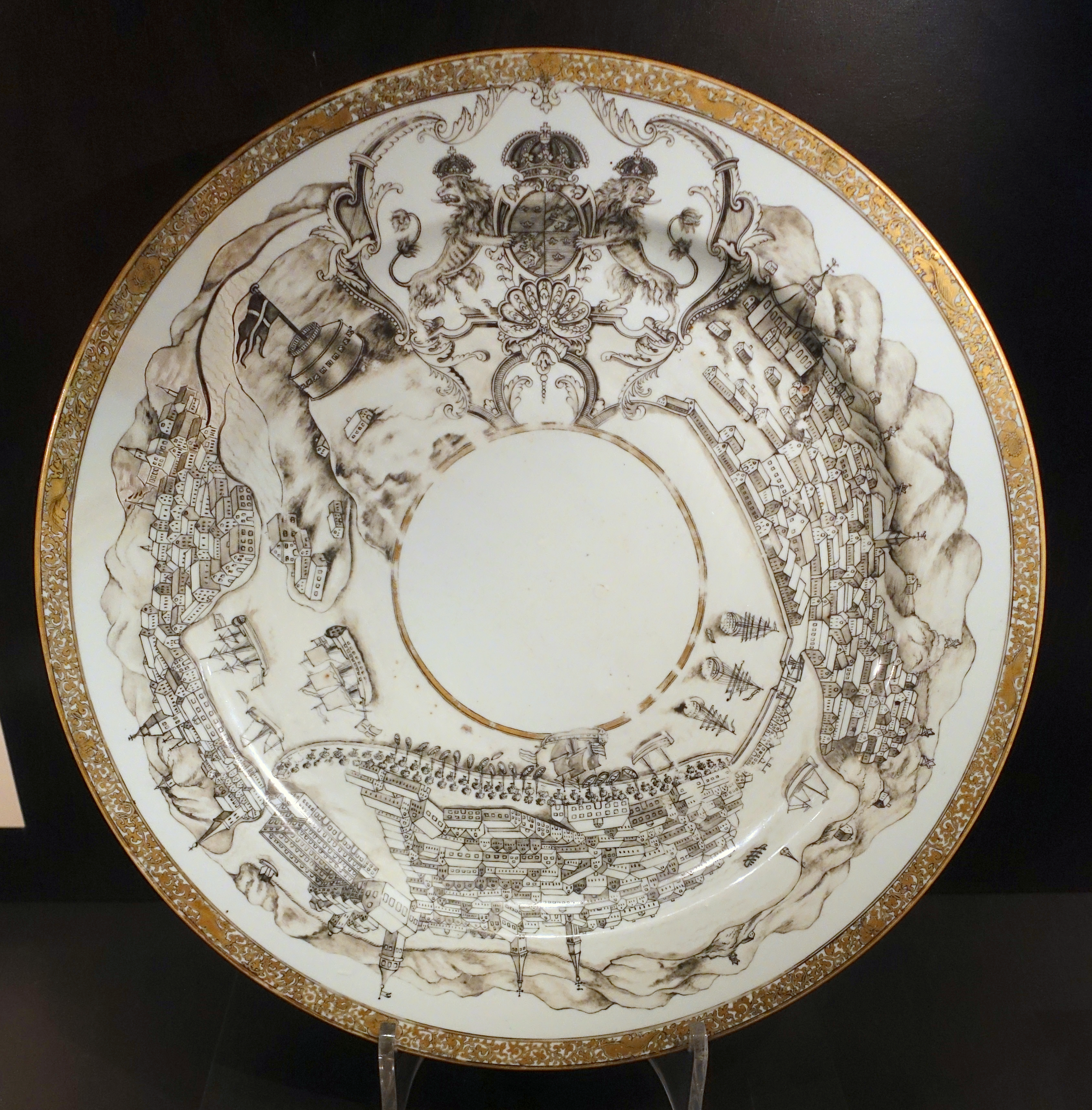 Exhibit in the Östasiatiska museet, Stockholm, Sweden. This artwork is old enough so that it is in the public domain.